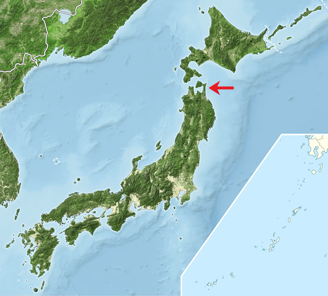 Nicer-looking map pointing out the location of Shimokita Peninsula in Japan.